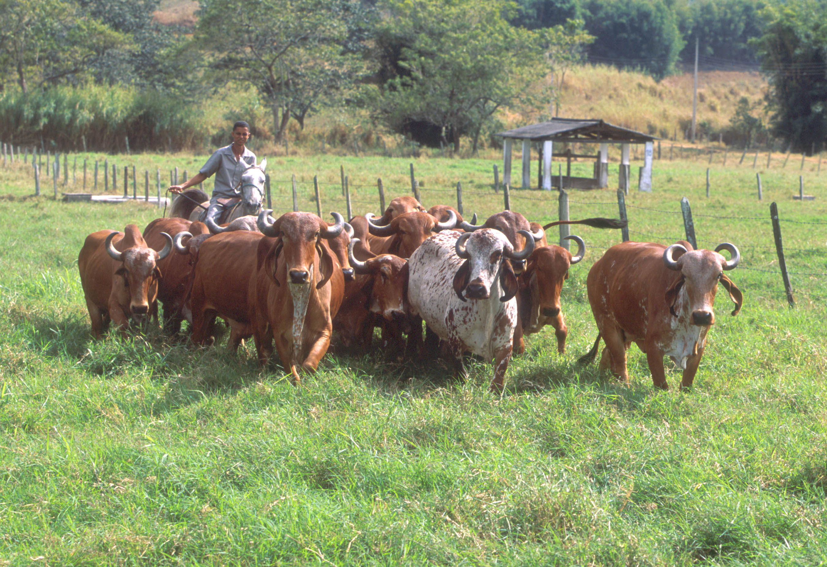 Original caption: “This herd of Gyr, a tropical cattle breed, is being studied as part of Labex research on cattle genetics. Above, animal caretaker José Cristiano dos Santos takes the cows for a health inspection at the Coronel Pacheco Experimental Station, near Valenca, Brazil.”